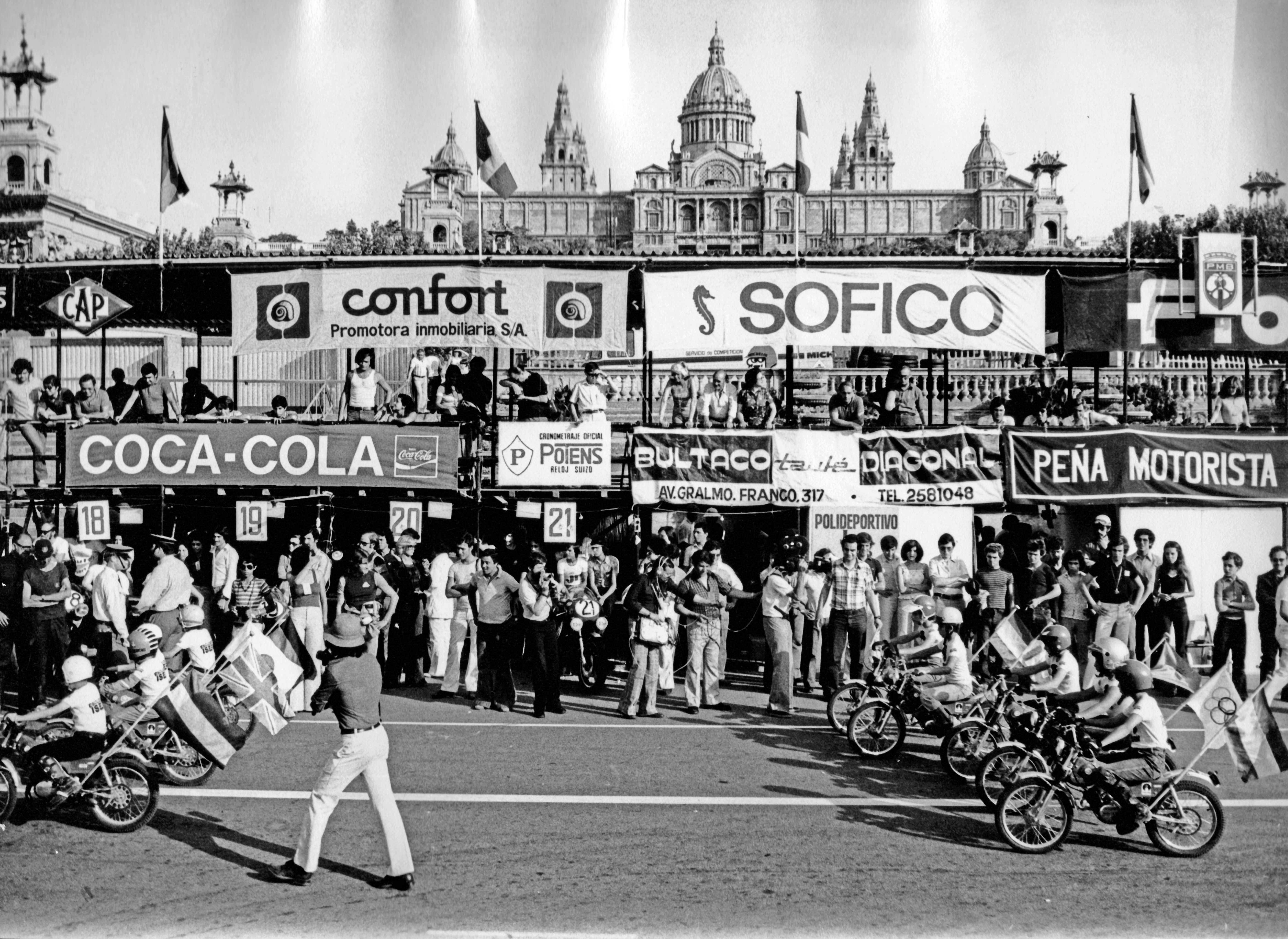 Children parade of the Escuderia Isern before starting the 1974 24 Hores de Montjuïc. With a striped helmet, Marcel·lí Corchs.